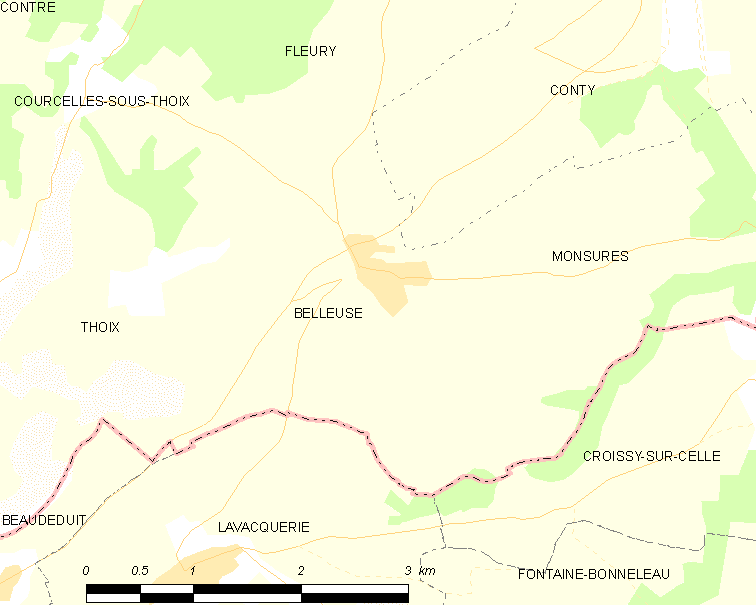 Map of French municipality Belleuse